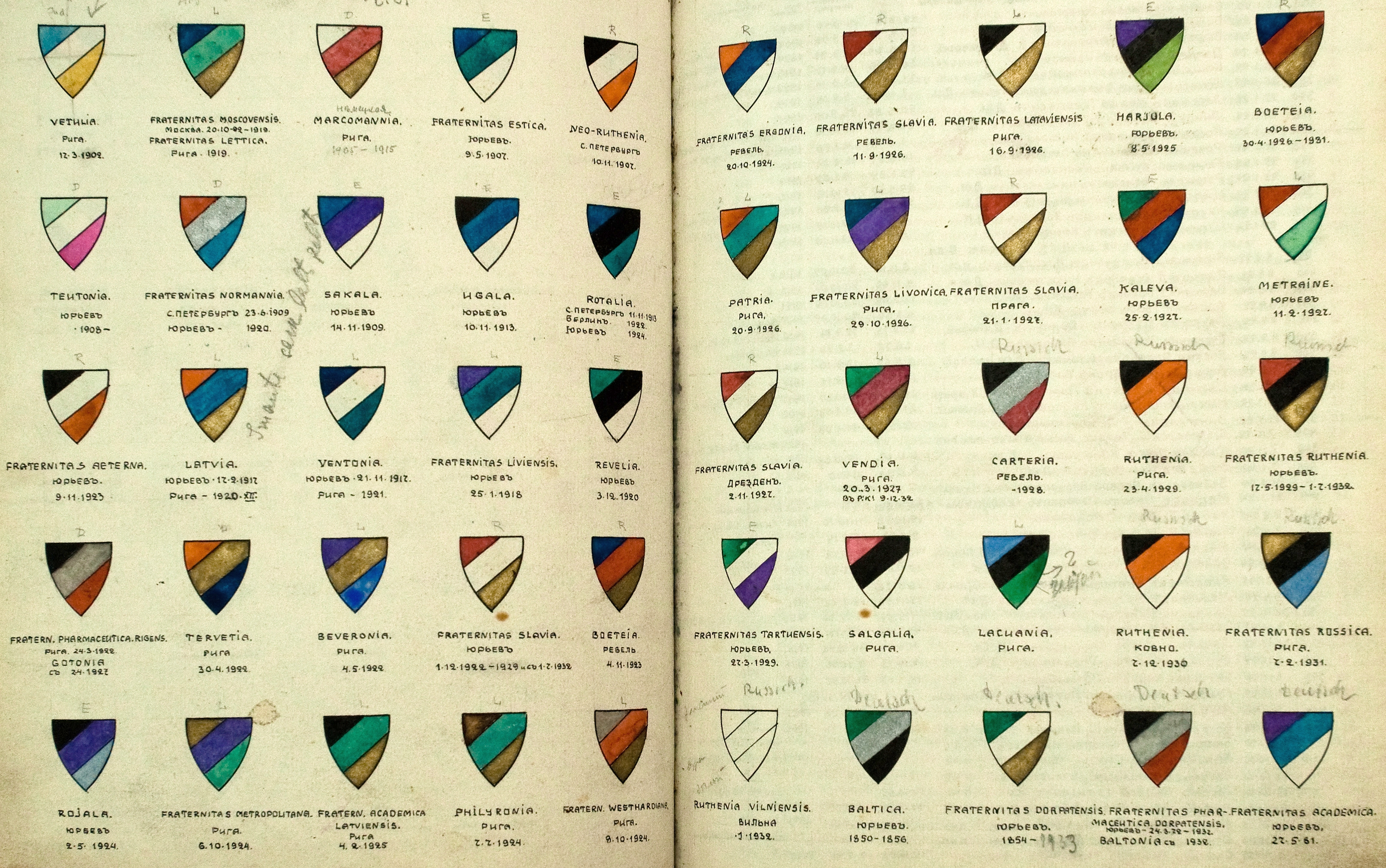 Colours of student fraternities in Sankt Petersburg and Moscow